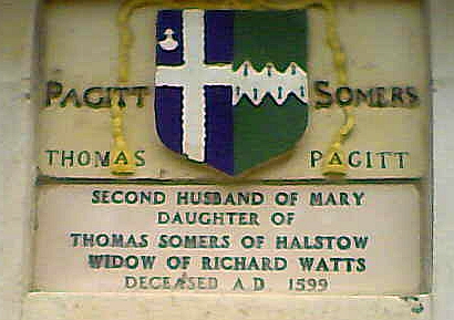 Plaque recording the second marriage of Richard Watts' widow